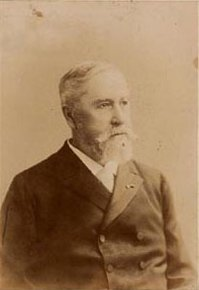 Picture of the German architect Eugen Gugel in 1902.